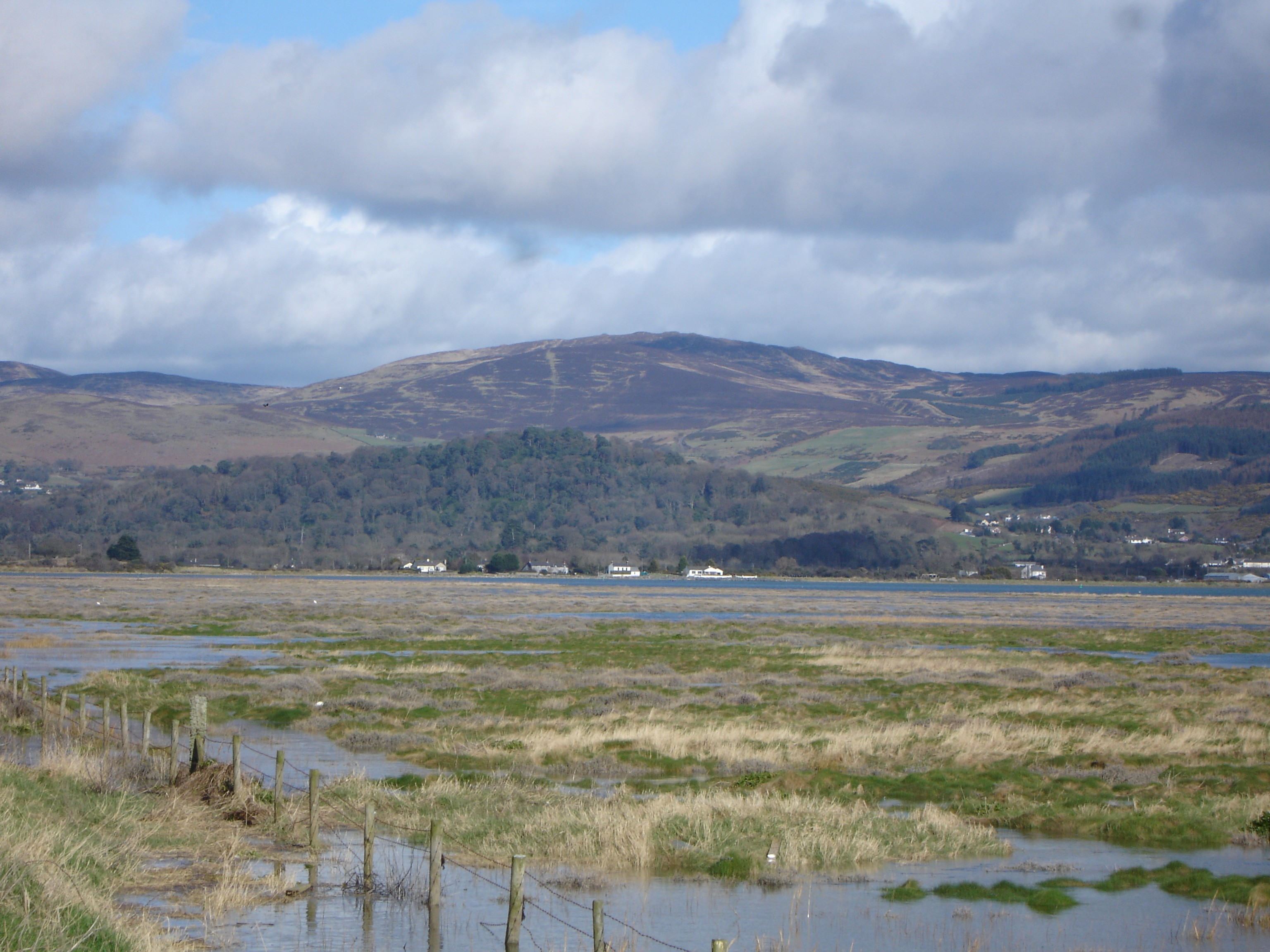 Marshes along the coast at Dundalk, Co Louth Ireland. Looking North towards the Cooley mountains.